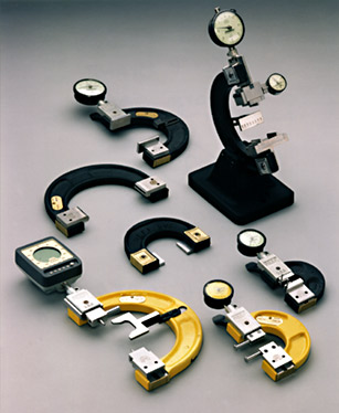 Various forms of snap gages